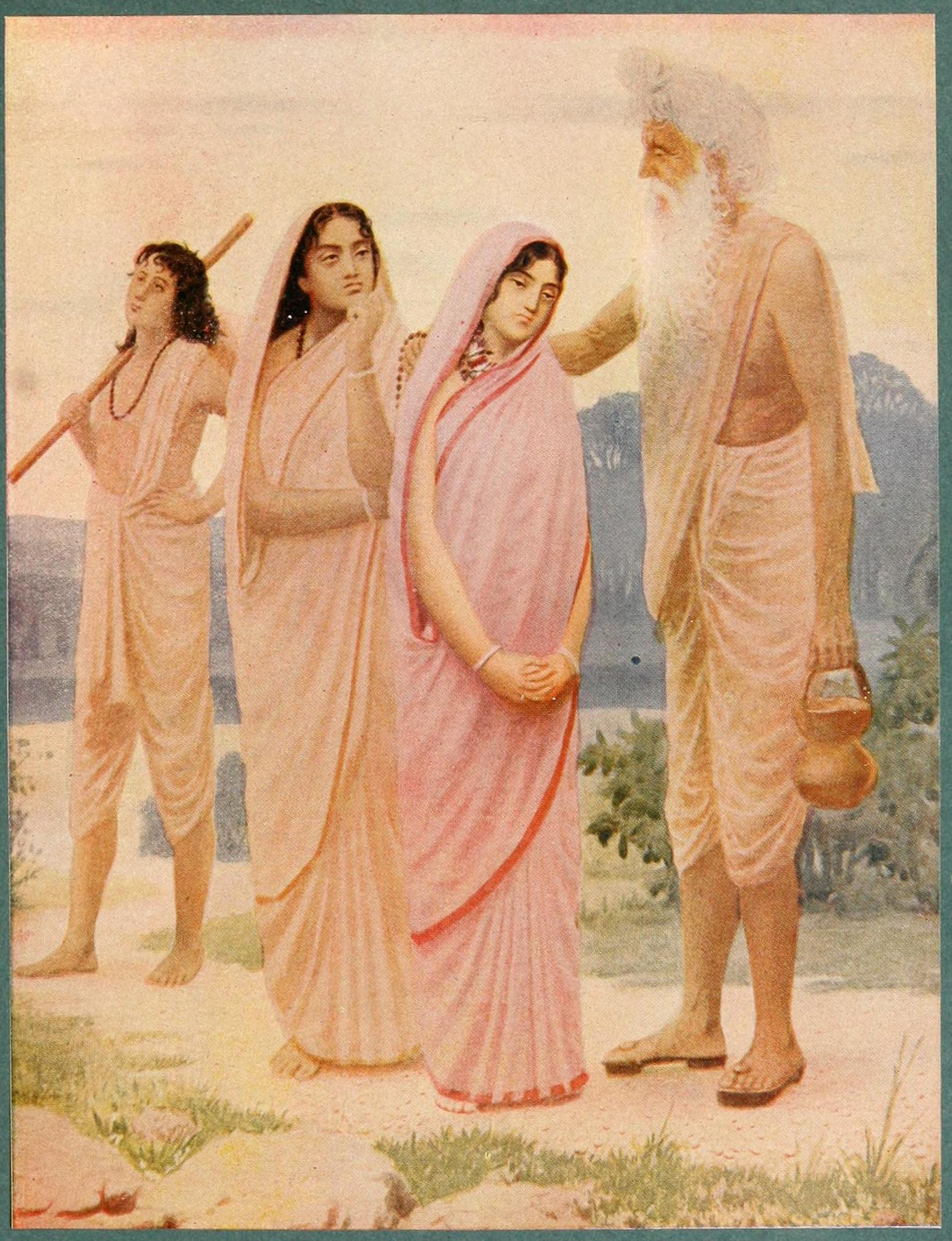 Nine ideal Indian women (1919) Author: Sunity Devee, Maharanee Publisher: Calcutta : Thacker, Spink & Co. Possible copyright status: NOT_IN_COPYRIGHT Language: English Call number: SRLF_UCLA:LAGE-3264077 Digitizing sponsor: Internet Archive Book contributor: University of California Libraries Collection: cdl; americana Scanfactors: 2 Full catalog record: MARCXML [Open Library icon]This book has an editable web page on Open Library.